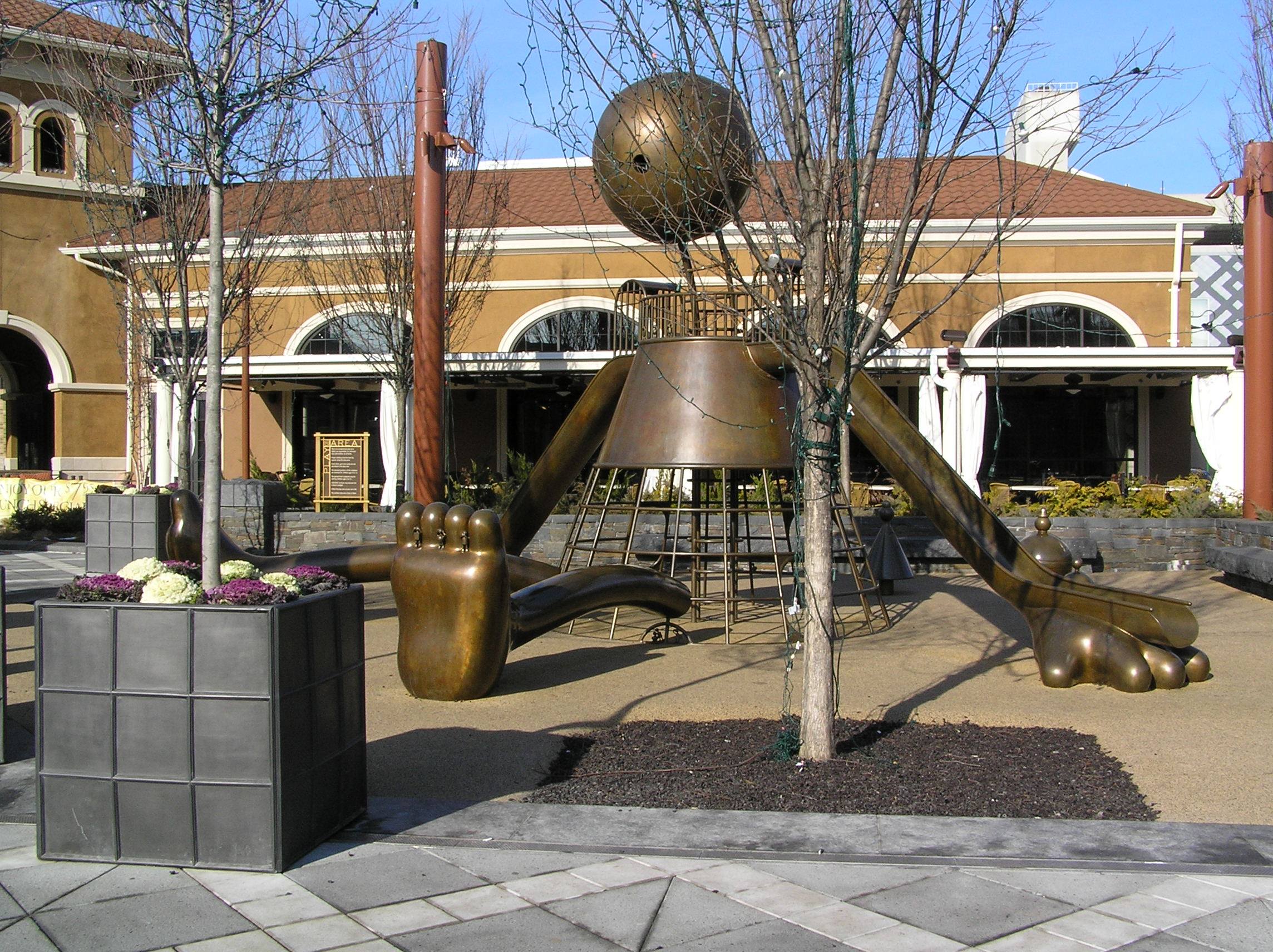 A photograph of the playground at the Yonkers (NY) Ridge Hill Shopping Center on January 8, 2013.